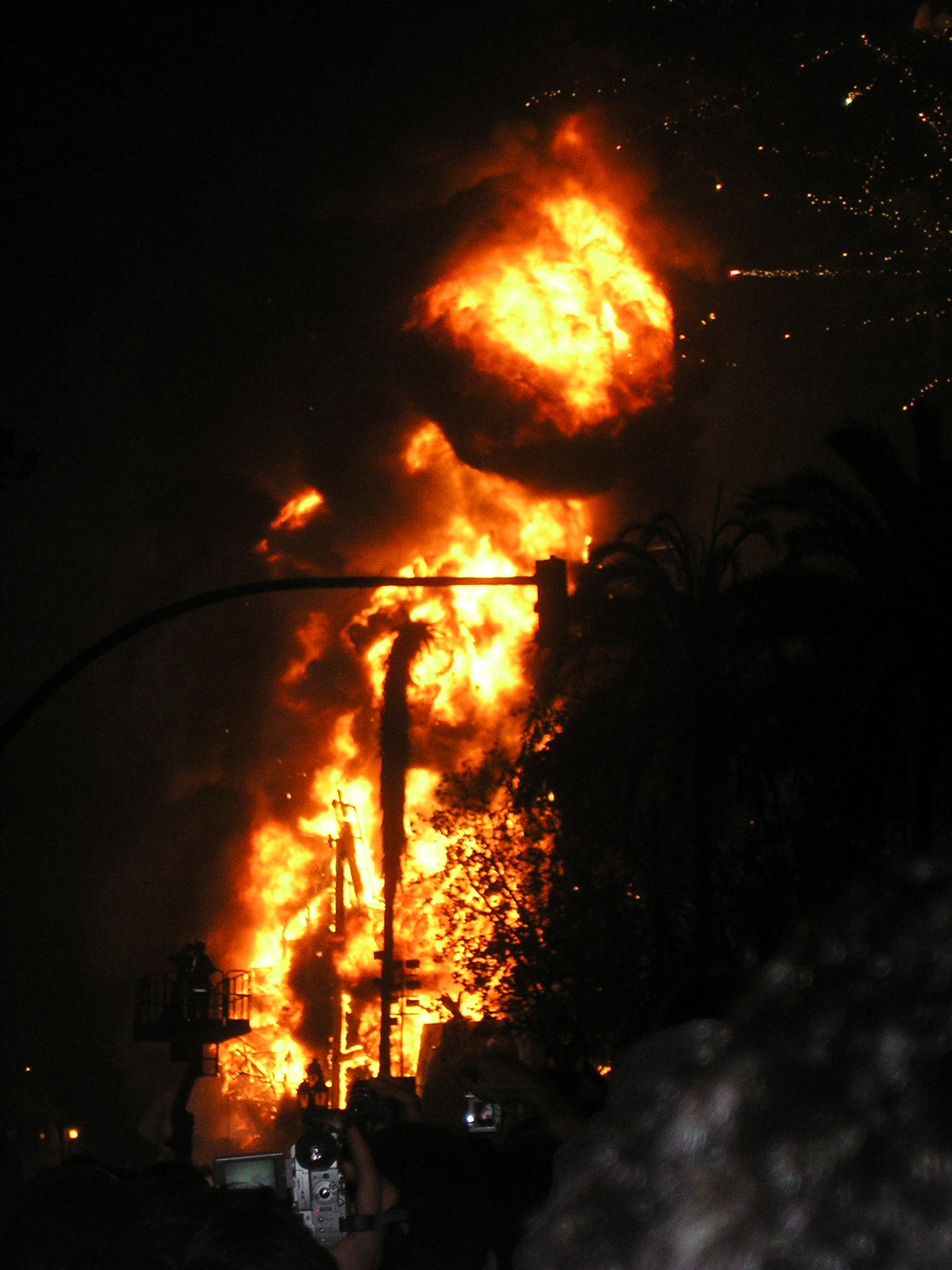 hecha por mi